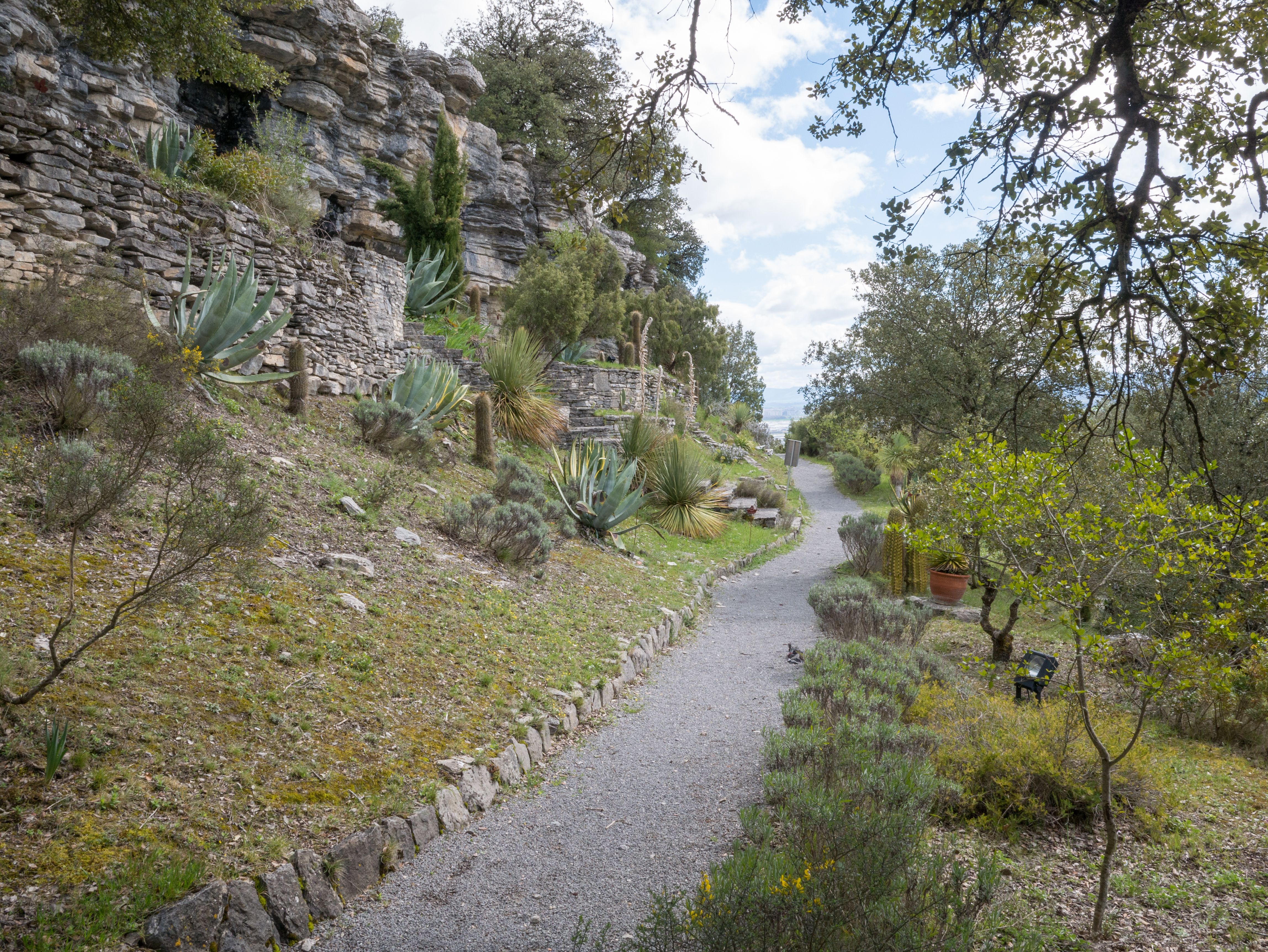 Dry clima vegetation in the Botanical Garden of Santa Catalina. Trespuentes, Iruña de Oca, Álava, Basque Country, Spain